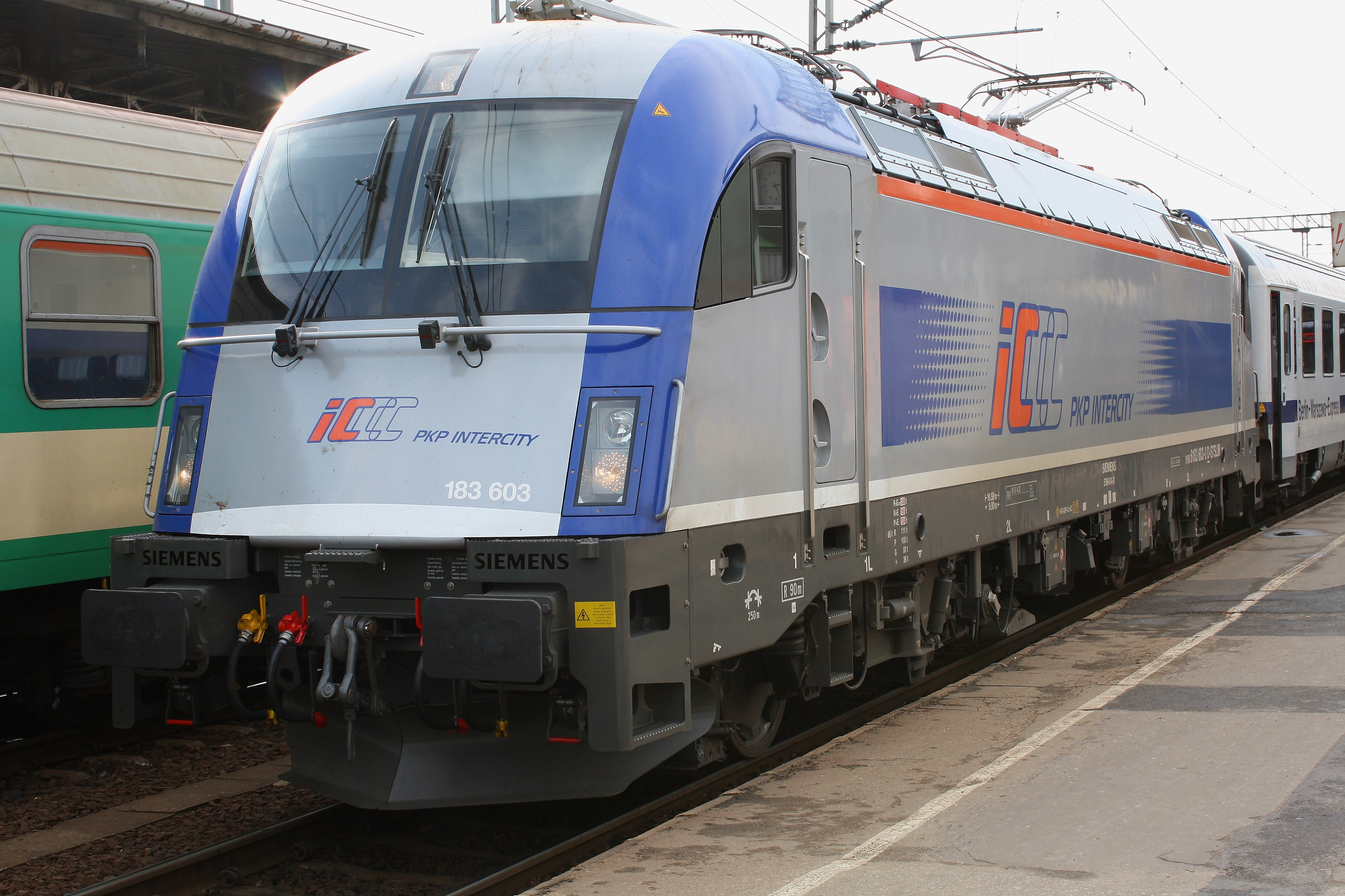 Locomotive Siemens E183-603 at Poznań Główny railway station, March 2010.